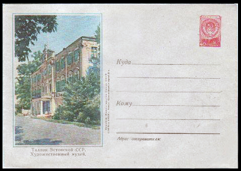 Postcard depicting an art museum in Tallin, 1956